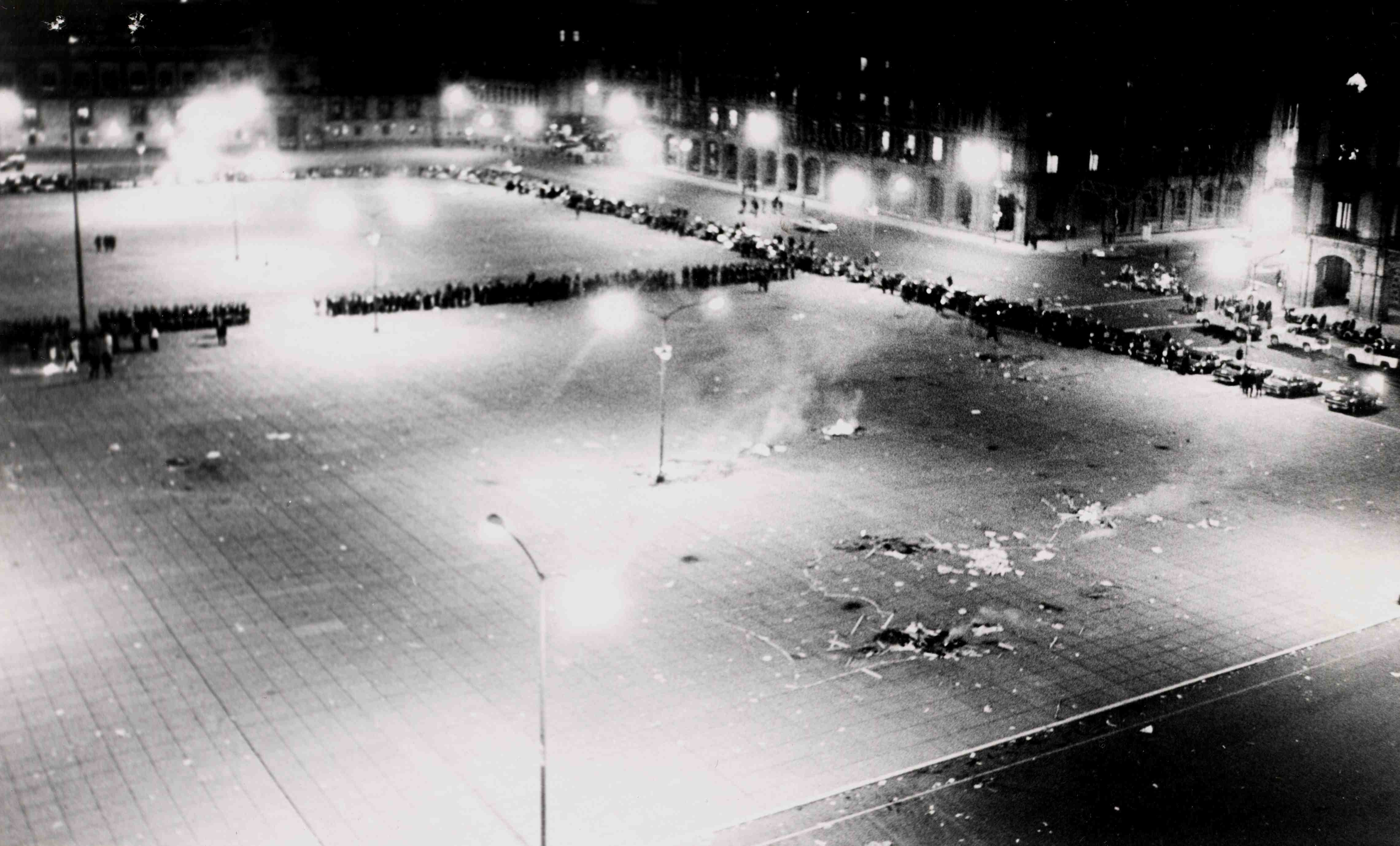 The army occpies the Central Square, Plaza de la Constitución − Zócolo — in the Historical Center of Mexico City. During Demonstrations and protests by students in 1968.